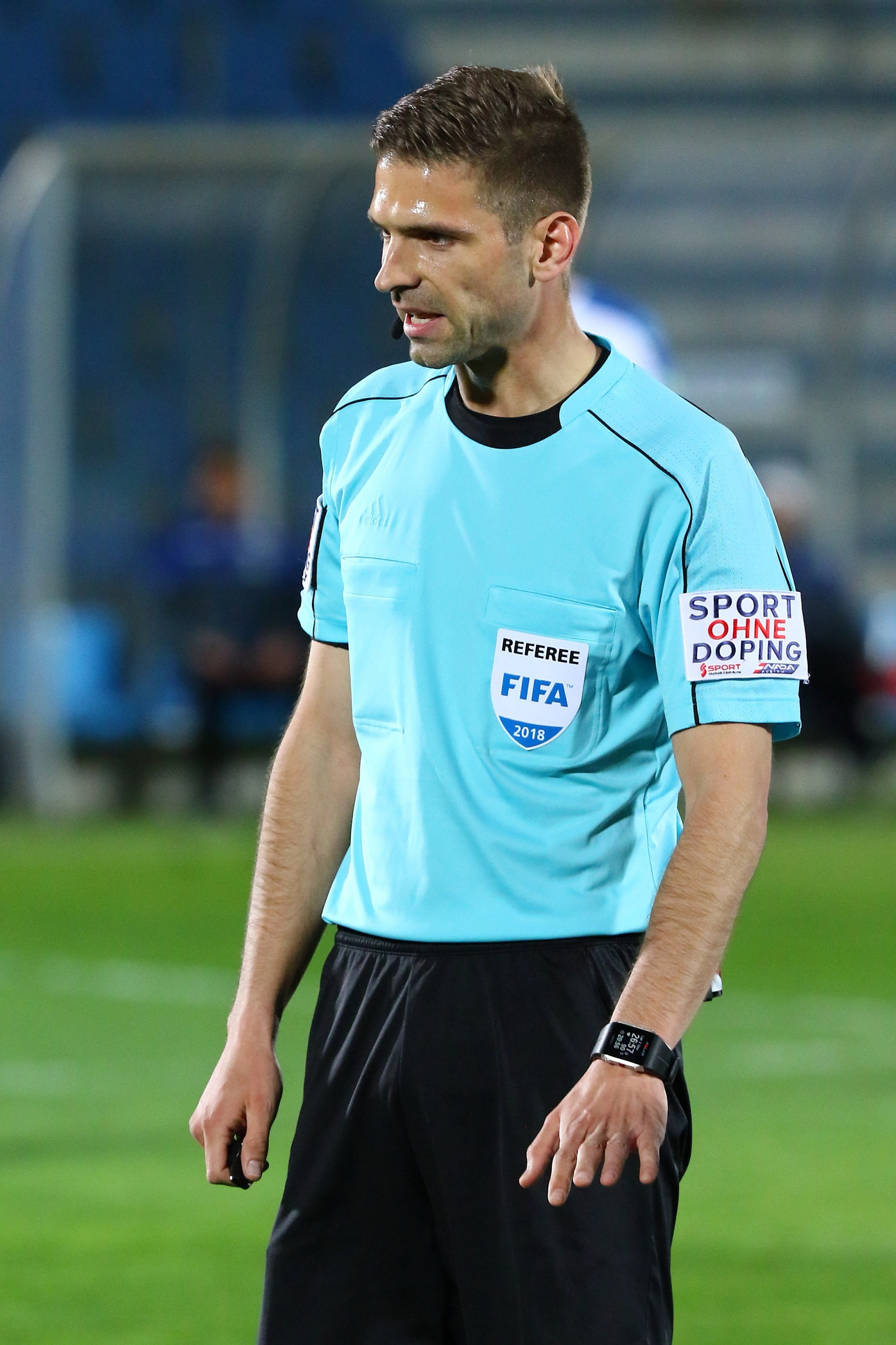 Football-championship Erste Liga 2017–18 - SC Wiener Neustadt (white shirts) vs. SV Ried (red shirts) 1-0. – The photo shows referee Christopher Jäger.